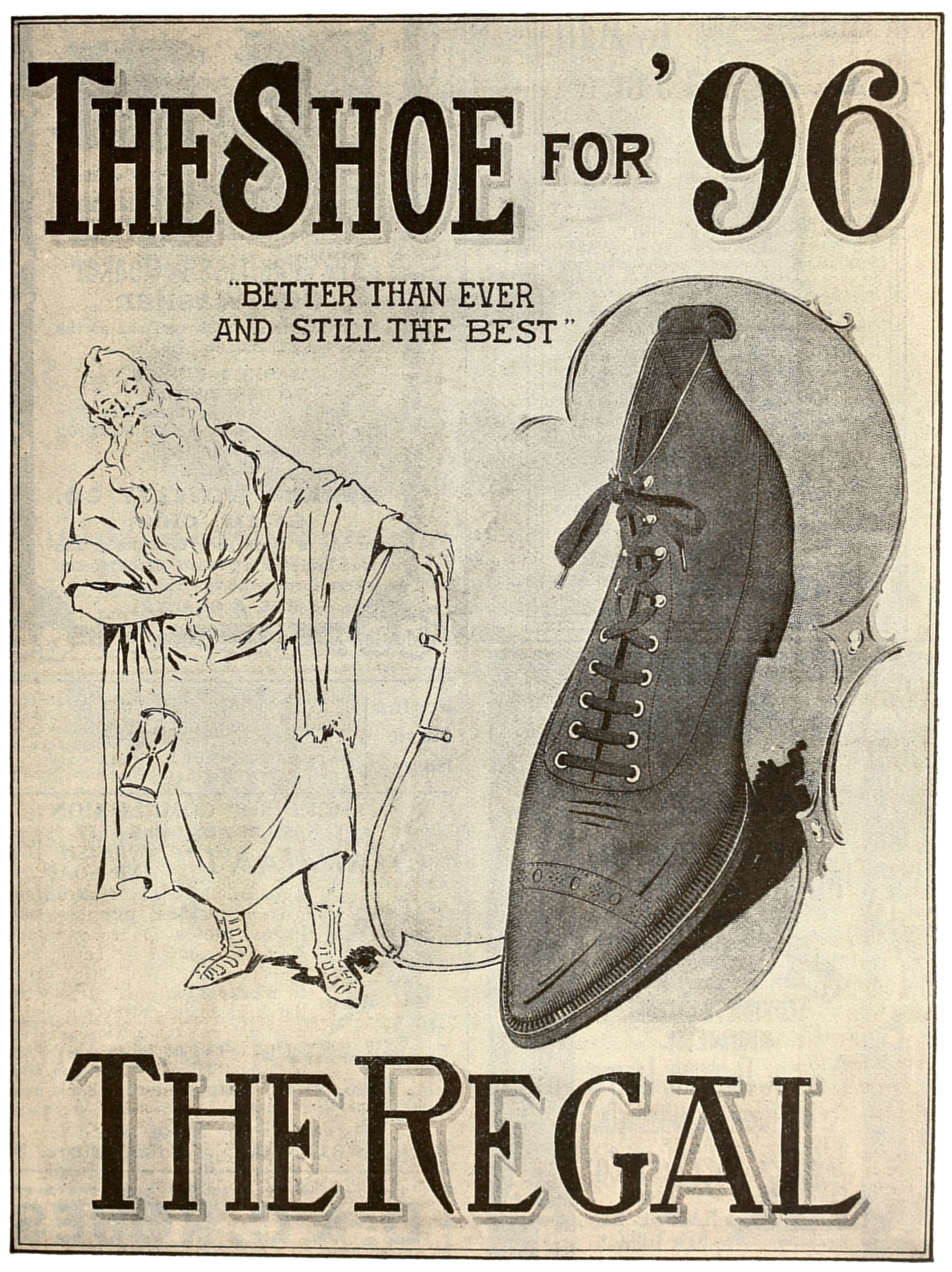 Advertisement in an 1896 issue of McClure's Magazine for "The Regal" (shoes).